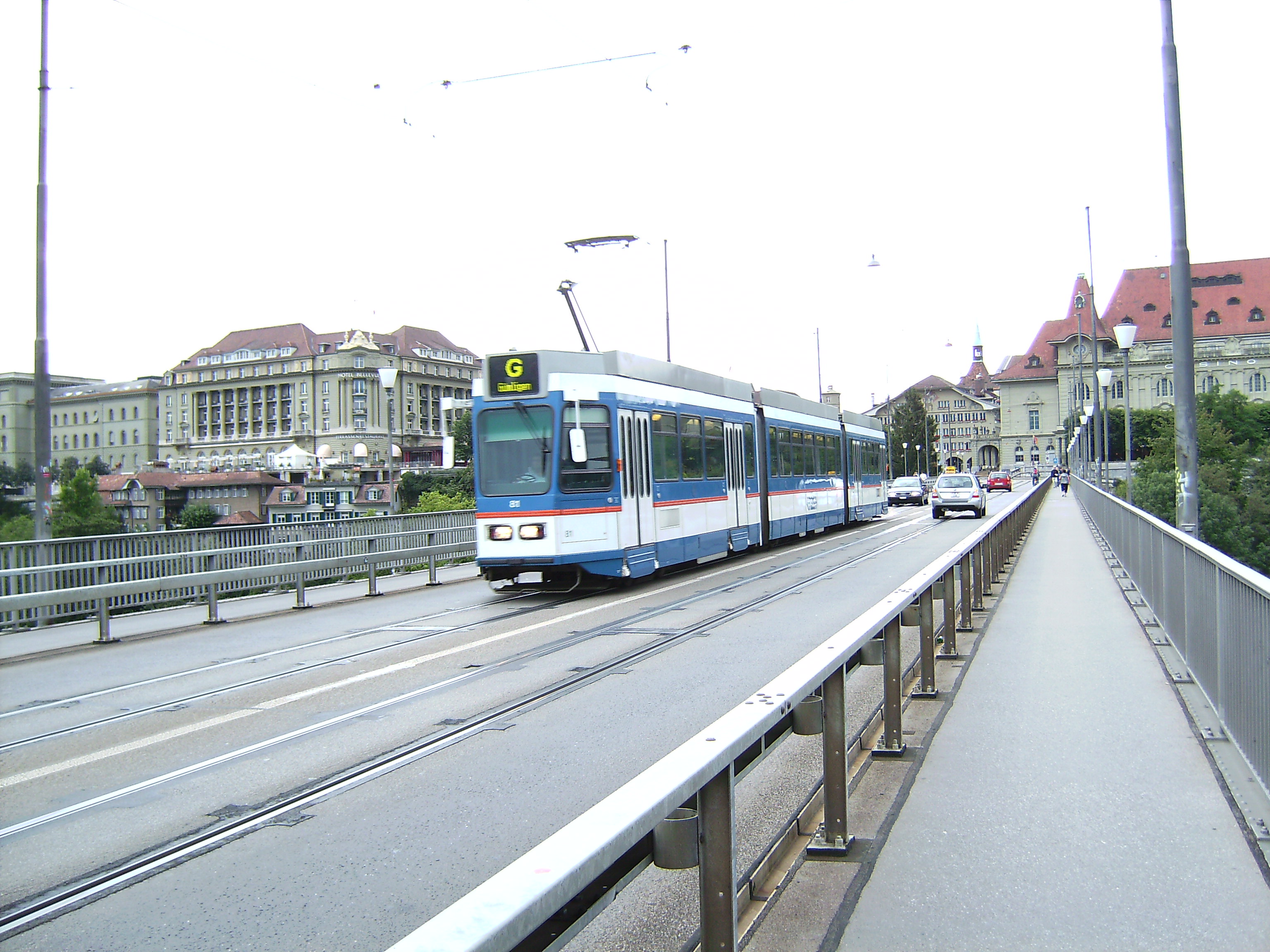 Tramway of the interurban tram line G (operated by Regionalverkehr Bern-Solothurn railways company) on the Kirchenfelderbrücke in Bern, Switzerland.